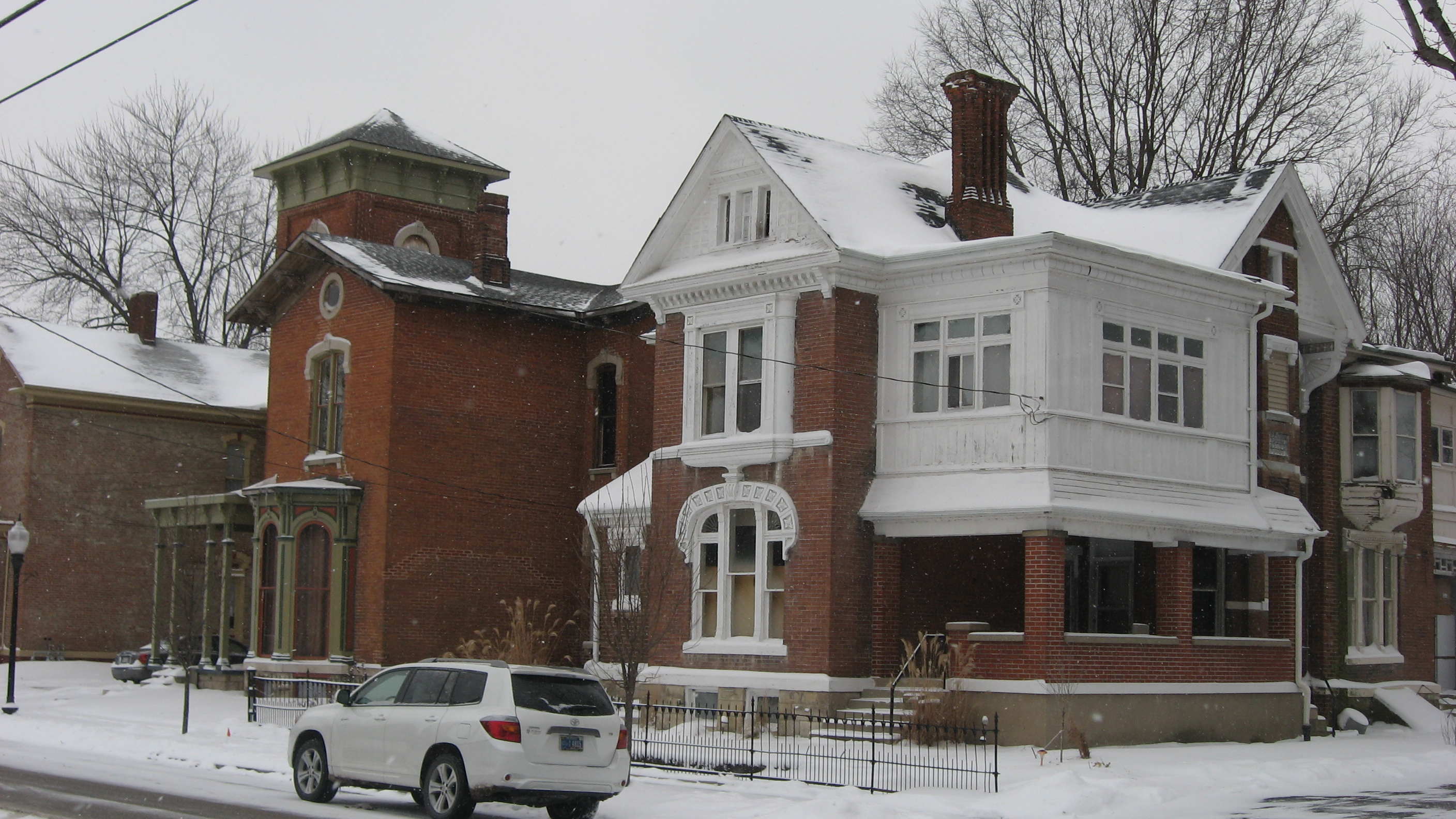 Houses on Eel River Avenue in Logansport, Indiana, United States. From right to left, they are: 142 Eel River: built 1890, Queen Anne. 136 Eel River: built 1875, Italianate. 128 Eel River, the Gilman House: built 1880, mixture of Italianate and Greek Revival. This block is part of the Bankers Row Historic District, a historic district that is listed on the National Register of Historic Places.